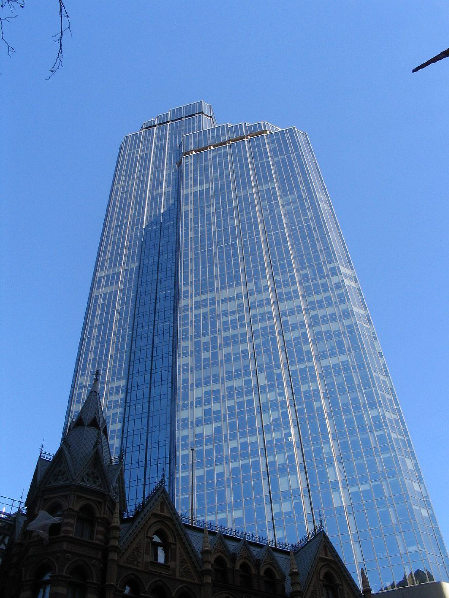 Rialto Towers, Melbourne, Australia